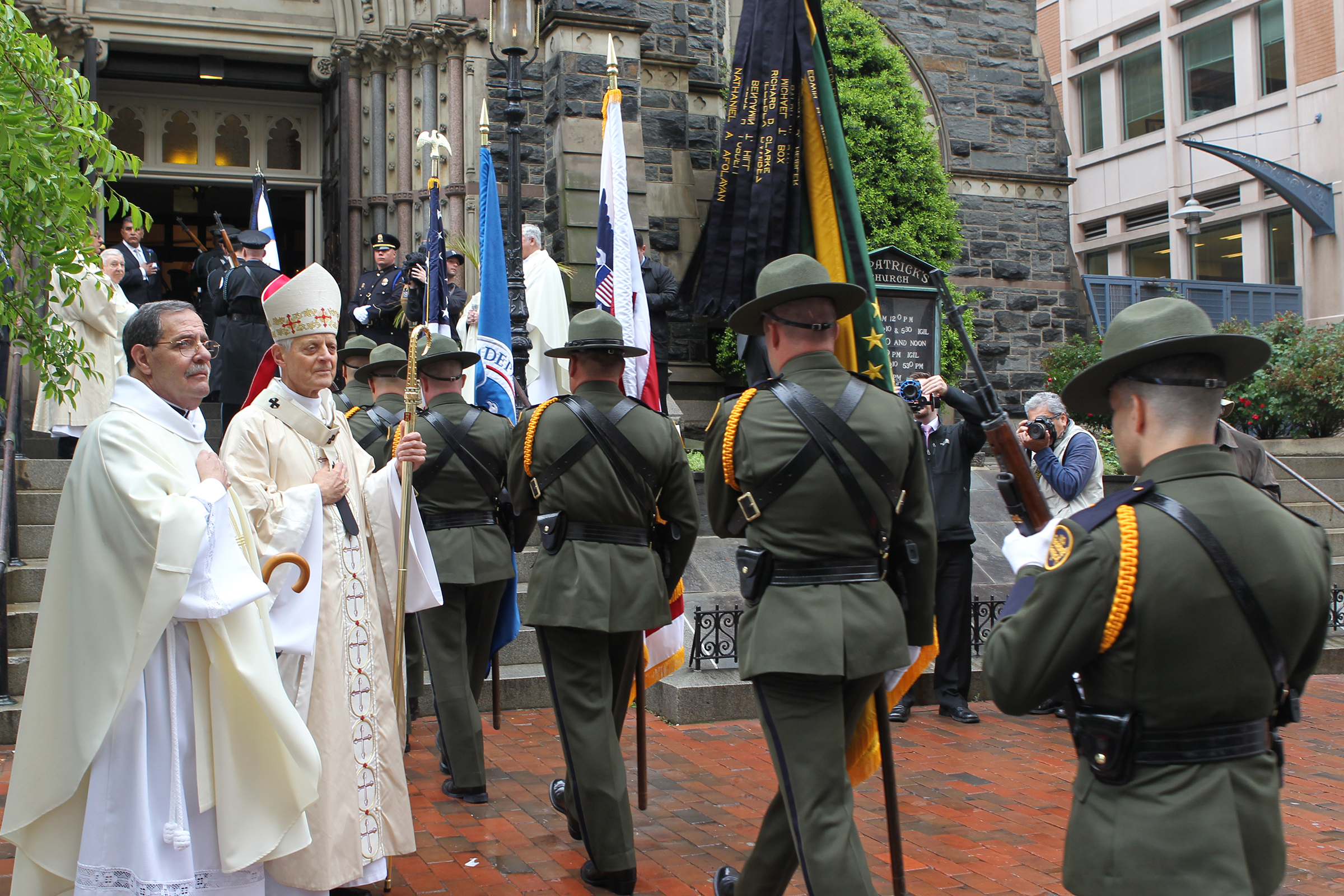 Police Week Blue Mass on May 7, 2013. The Border Patrol Honor Guard marching to enter St. Patrick's Cathedral, Washington, DC. in the passing of the colors. Photographer: Donna Burton